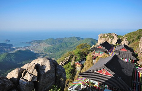 Boriam(buddhist temple) in Namhae, South Korea One of three saint places of Avalokiteshvara